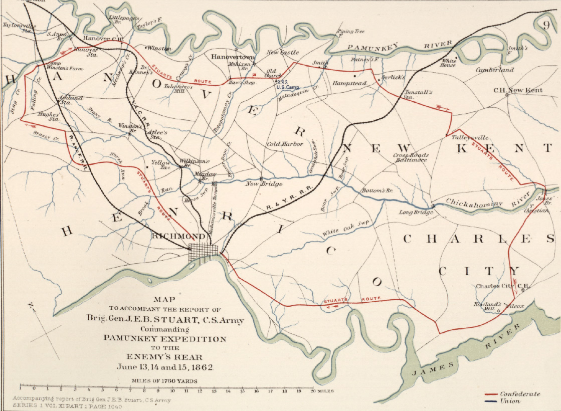 Gen. J.E.B. Stuart's raid around McClellan, June 1862